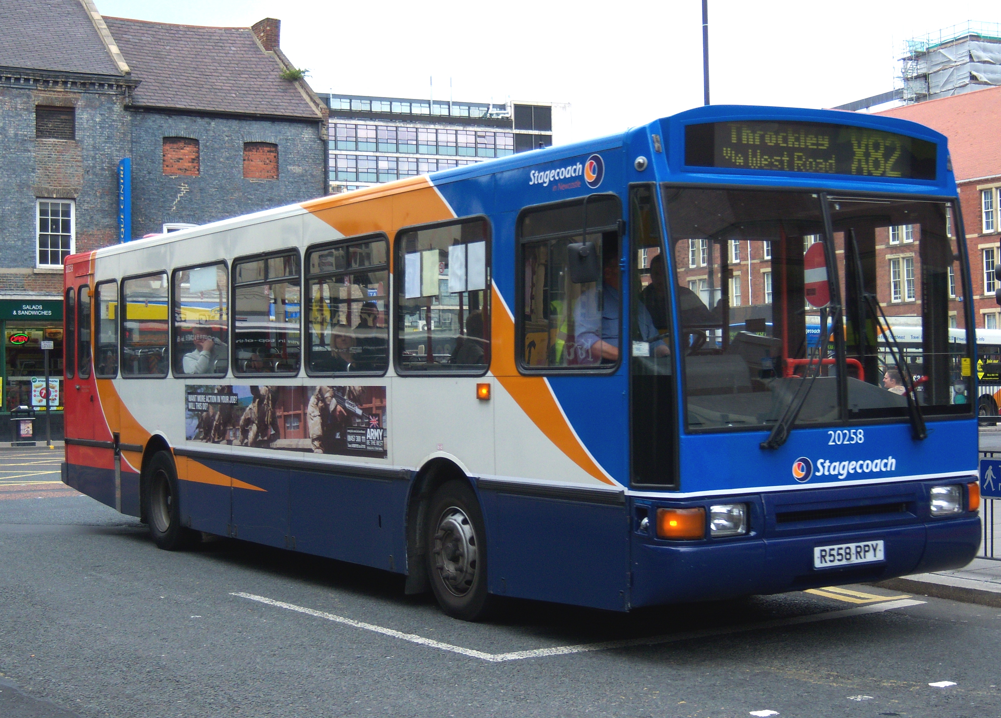 Stagecoach bus in Washington, Tyne and Wear.